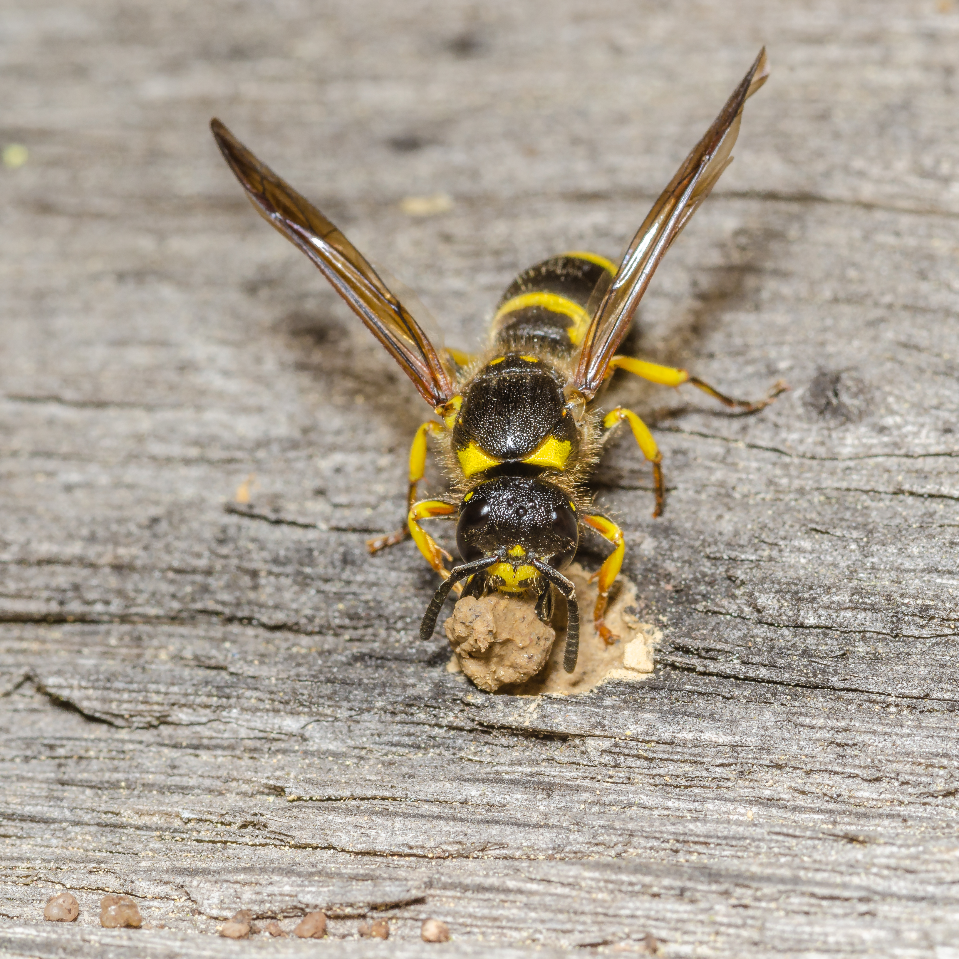 Ancistrocerus nigricornis bringing a ball of clay to close its nest. Image taken in Stuttgart, Germany